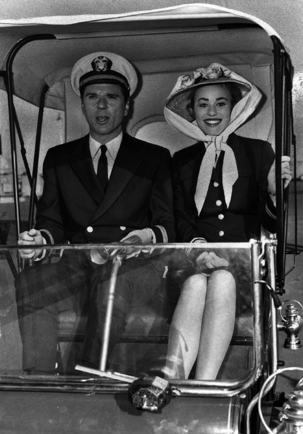 Publicity photo of Jackie Cooper and Abby Dalton from the television program Hennessey.